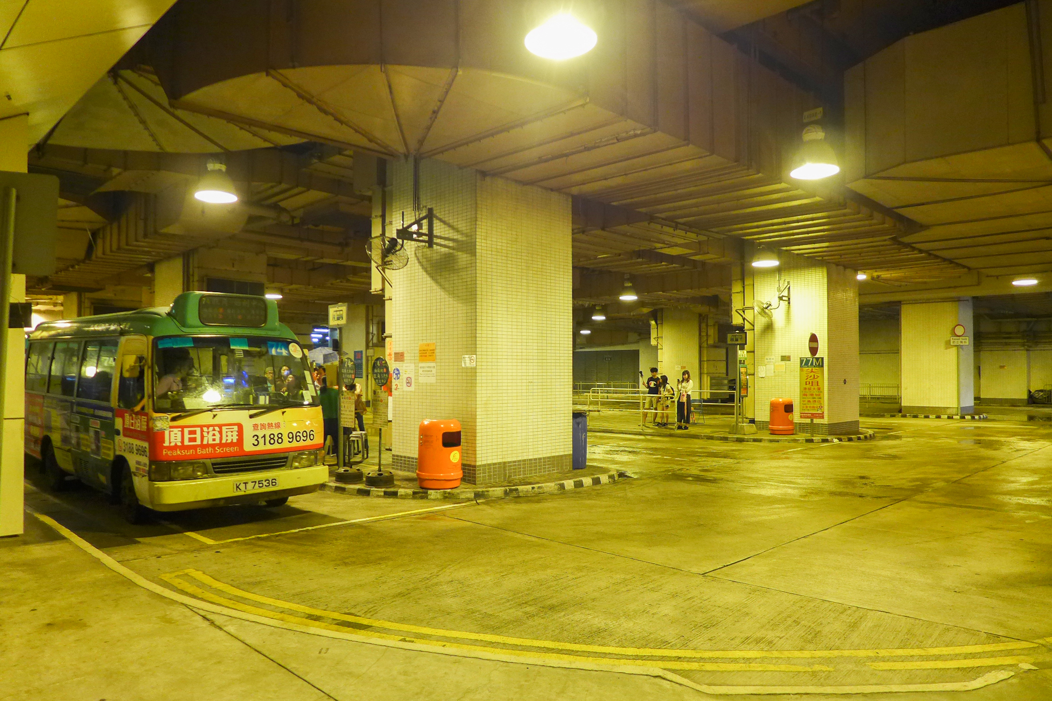 Kowloon Station Public Transport Interchange